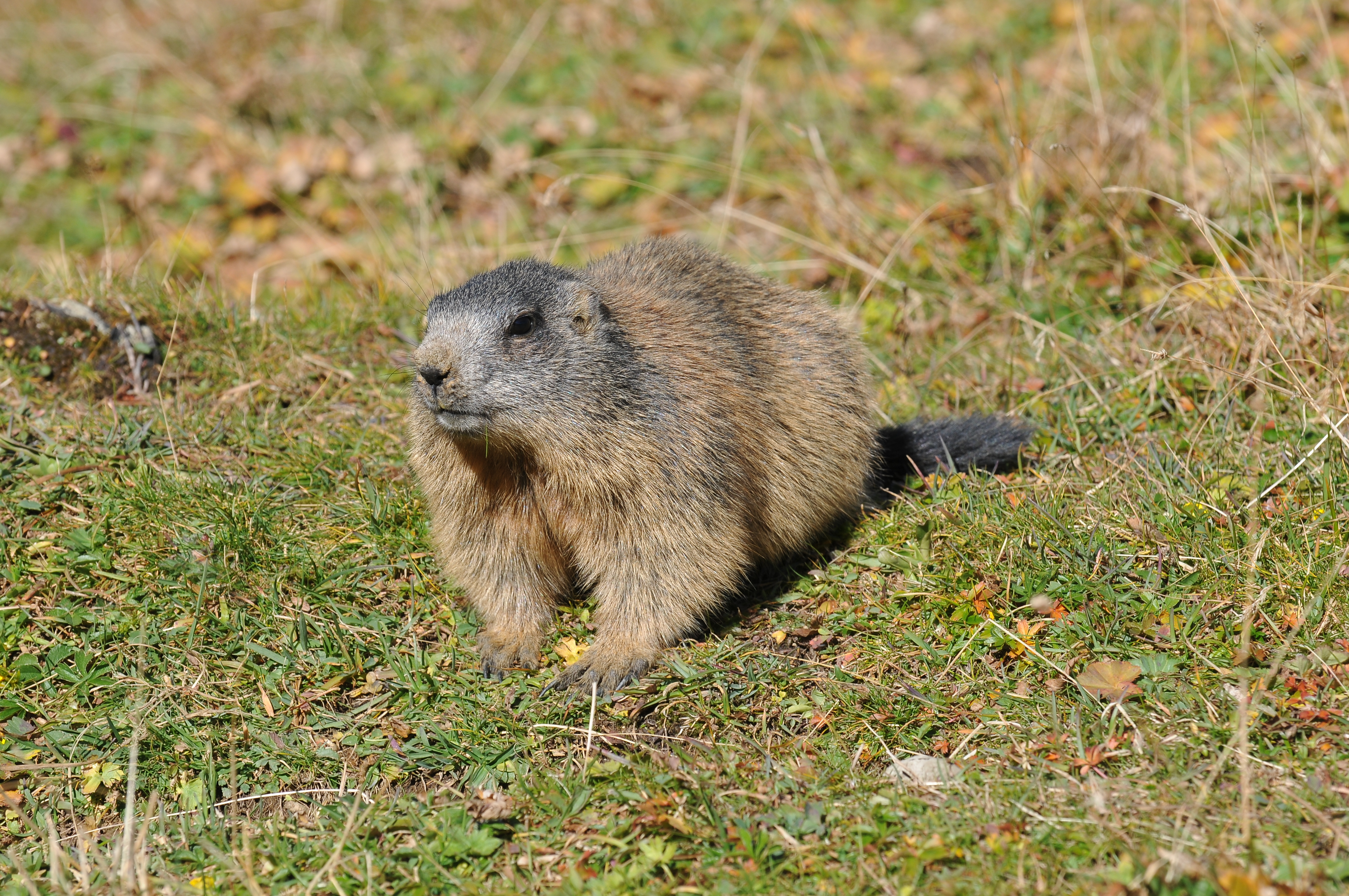 The Alpine Marmot (Marmota marmota) is a species of marmot found in mountainous areas of central and southern Europe.